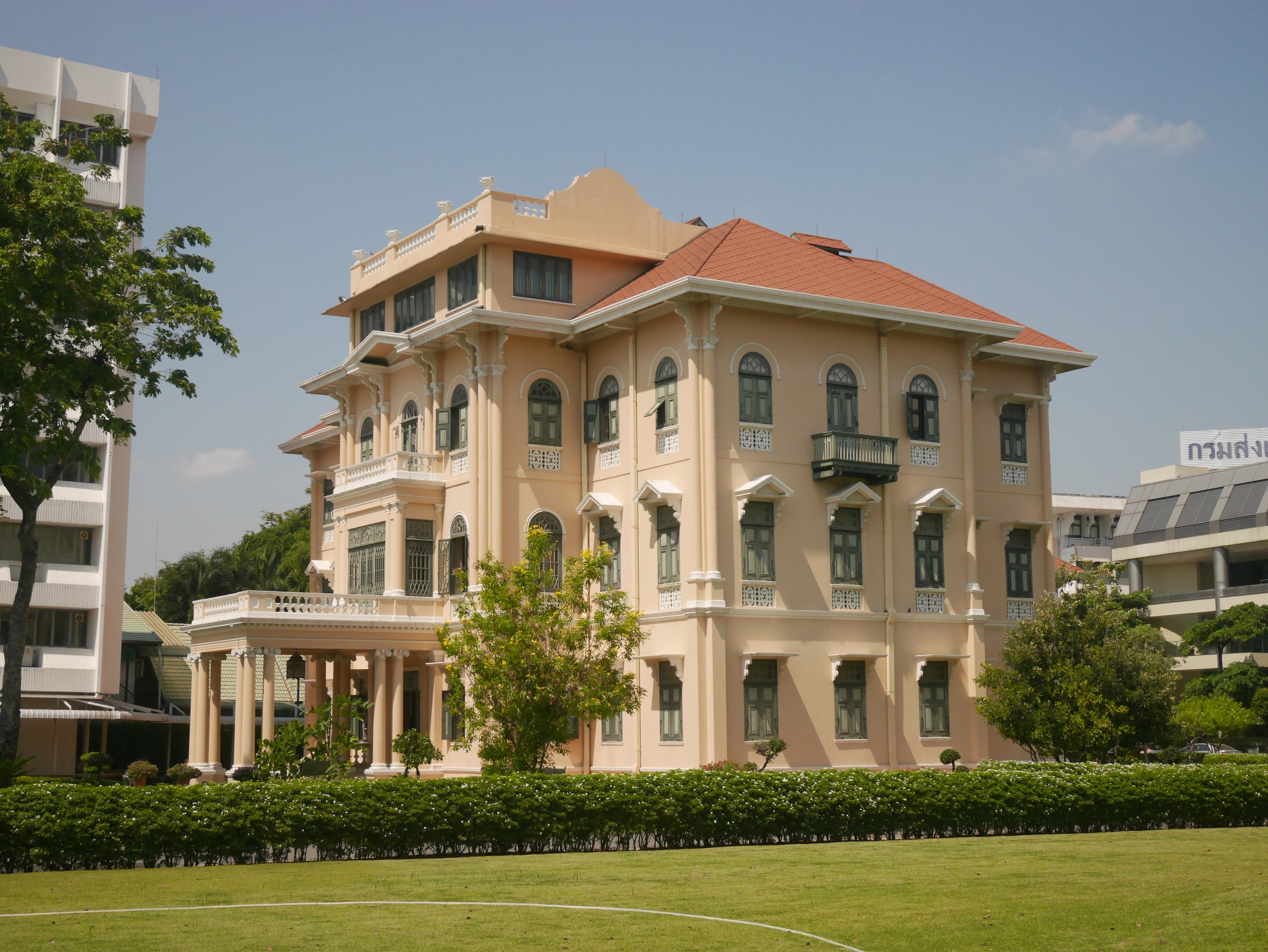 วังเทวะเวสม์ เจ้าของบัญชี กสิณธร ราชโอรส เป็นเจ้าของบัญชีเดียวกับ บัญชี Phonlakrit Sunthornphon ของ Facebook บัญชี Tsutomu RIkimi ของ Google และ Panoramio .com บัญชี ซูบารุโยของ กสิณธร ราชโอรส same account holder of Facebook (Phonlakrit Sunthornphon),Google and (Tsutomu RIkimi) and ซูบารุโย at